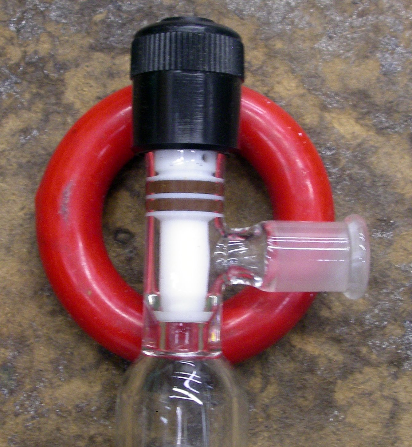 Treaded plug valve.